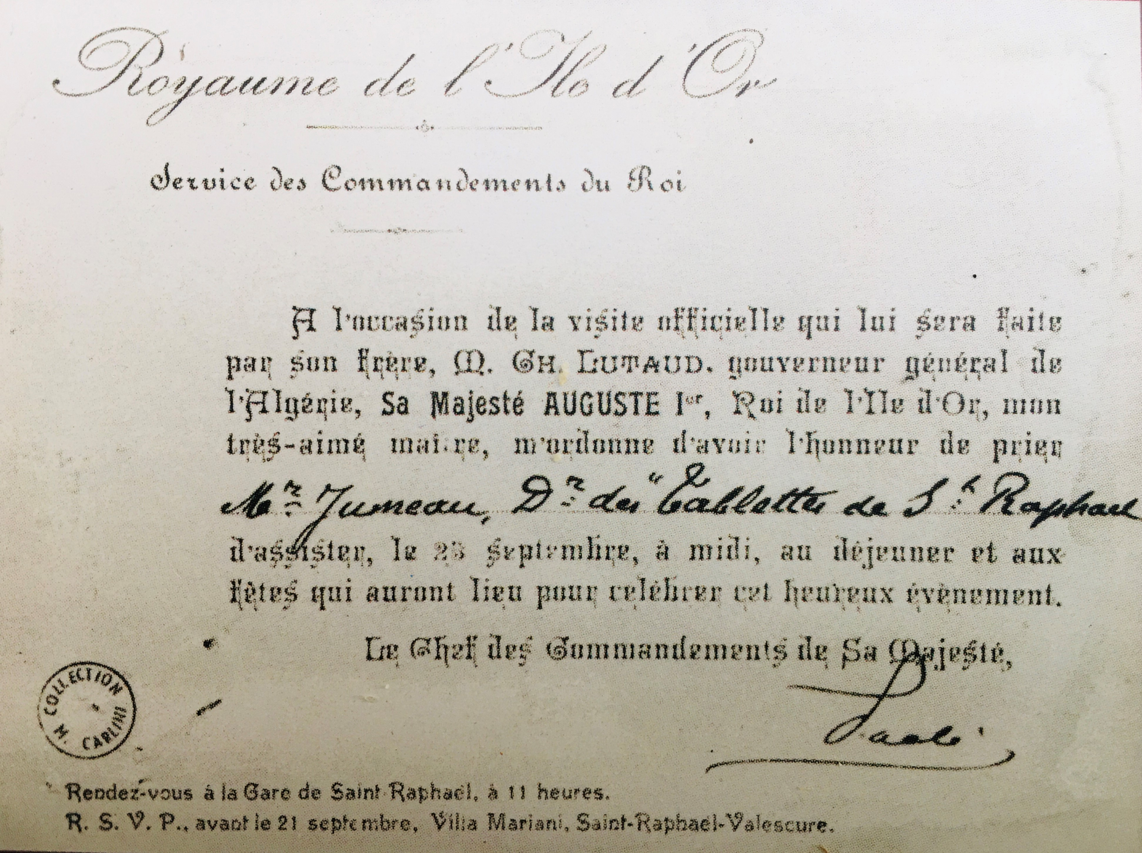 Invitation Card.